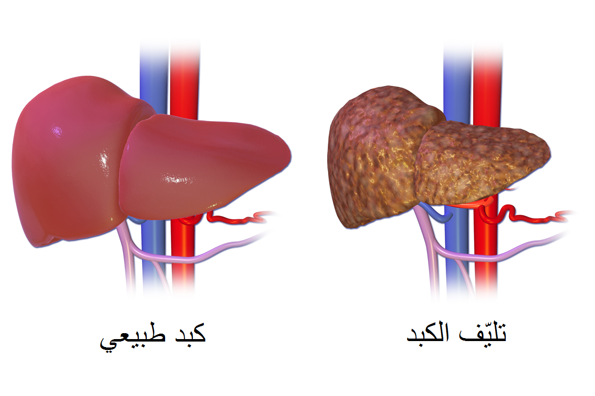 Normal liver compared to another with cirrhosis